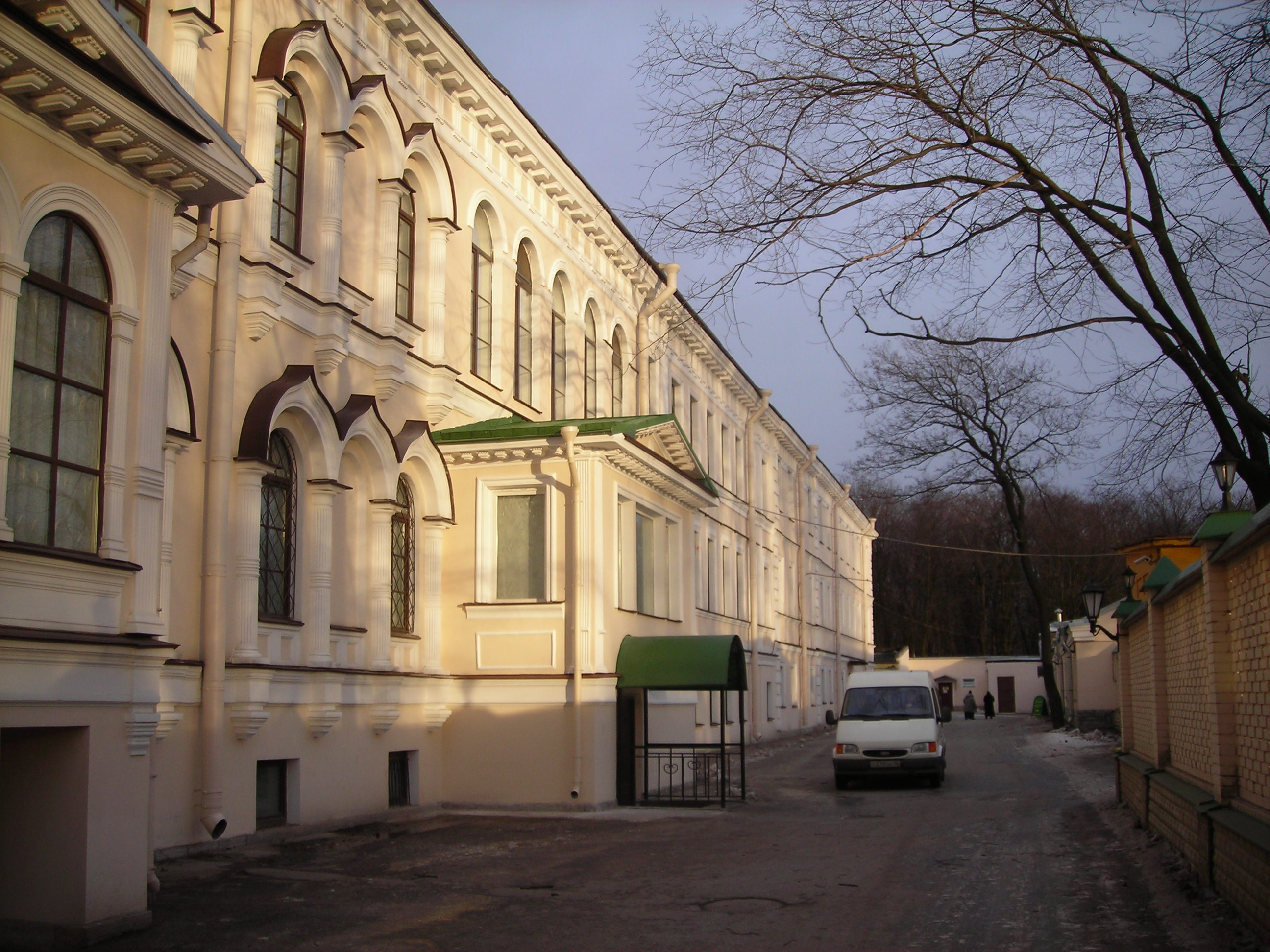 Saint Petersburg (Russia), Moskovsky Avenue.